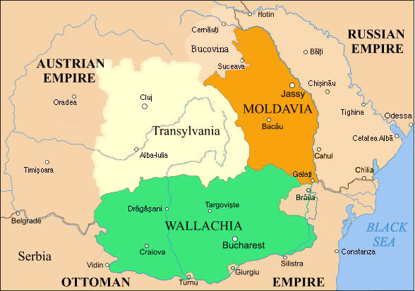 Romania's territory, map showing the period 1812-1829